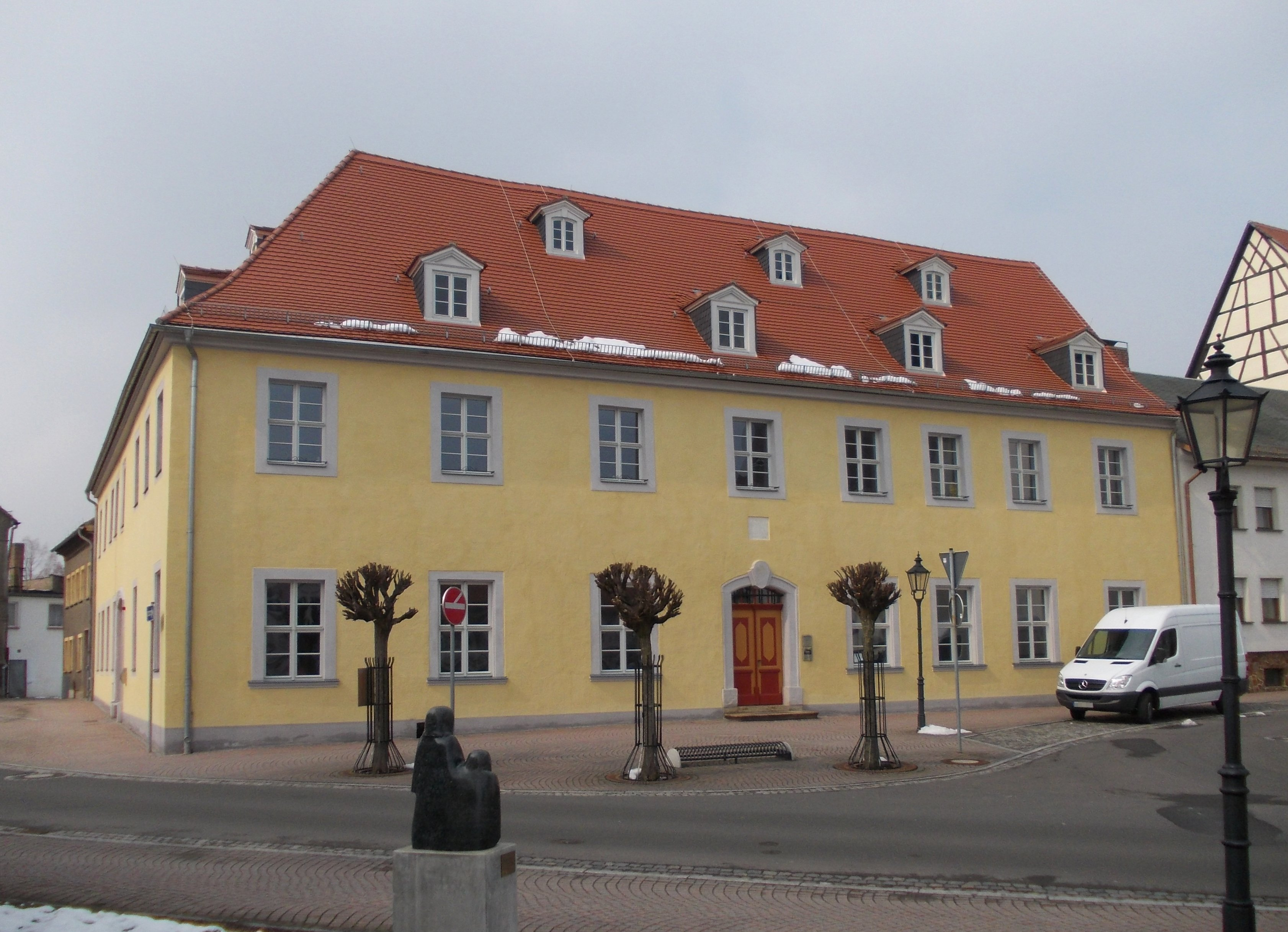 "Napoleon's House" in Pegau (Leipzig district, Saxony)